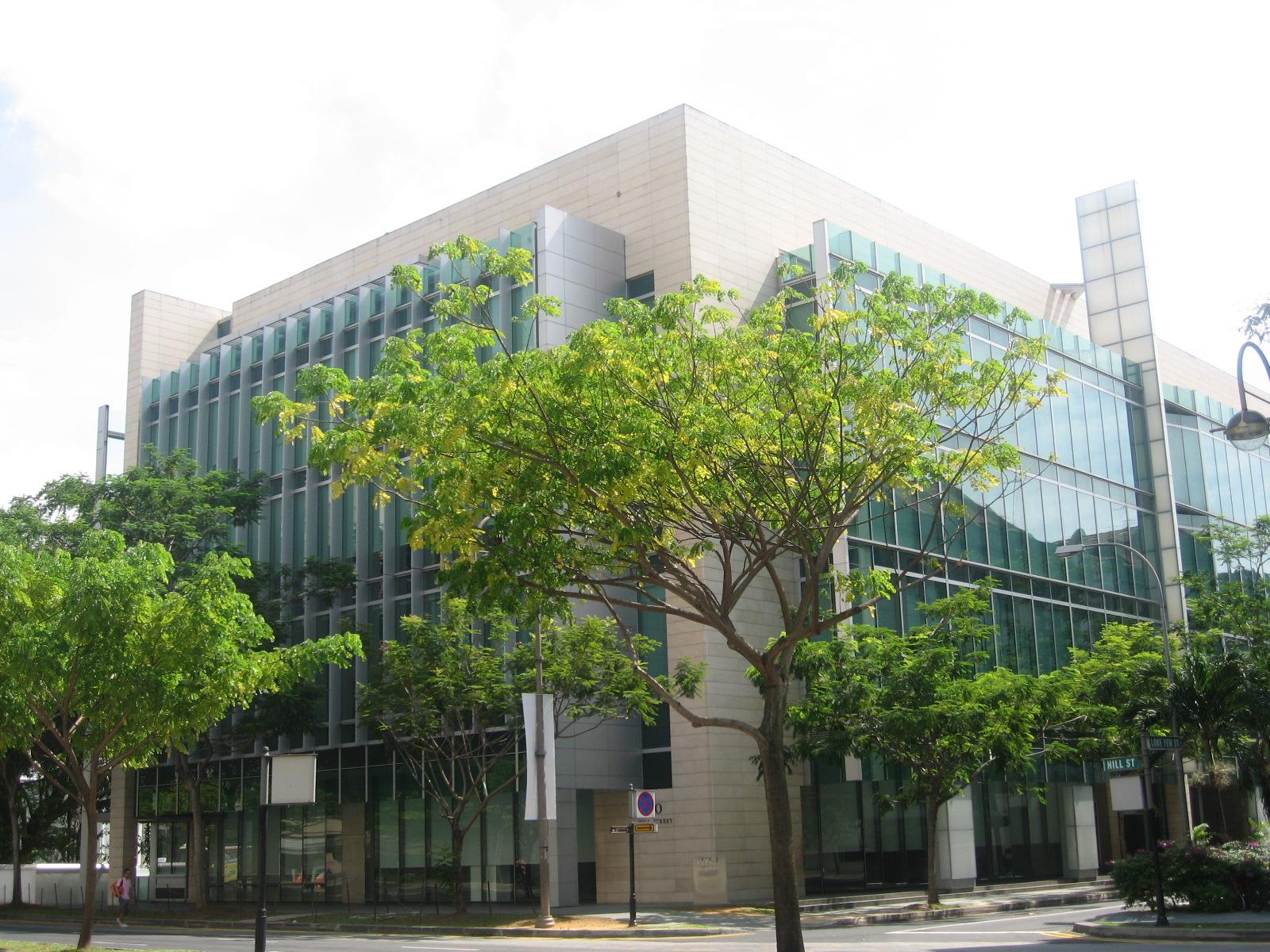 30 Hill Street, formerly the Embassy of the United States of America in Singapore.